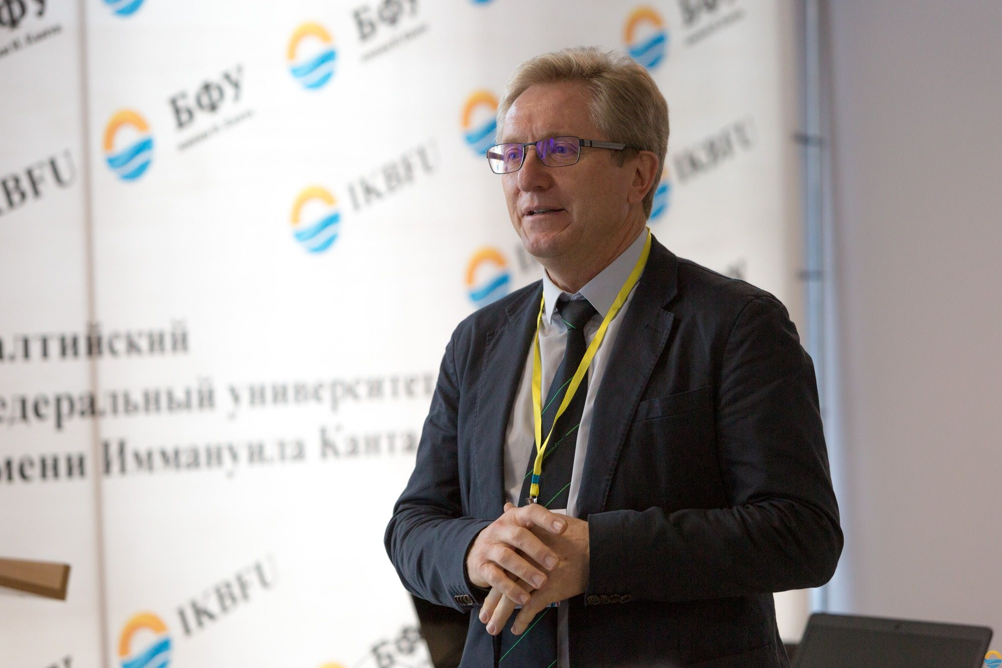 Dr. Anatoly Snigirev, the one of the founder of X-ray refractive optics